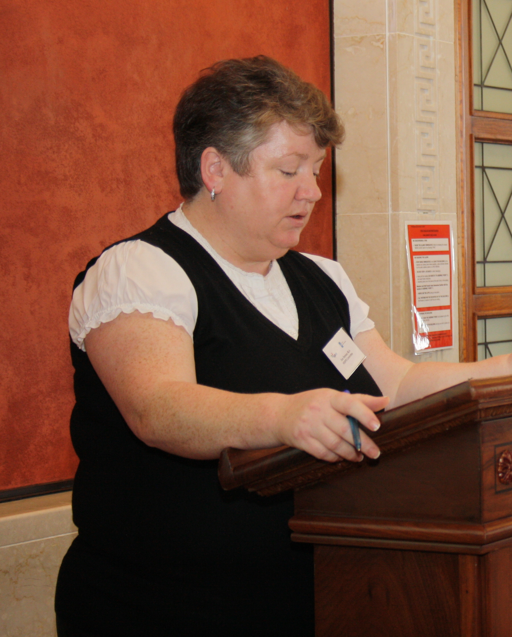 Sinn Féin MLA and chair of the Health Committee Sue Ramsey speaking at the Age NI event in Stormont